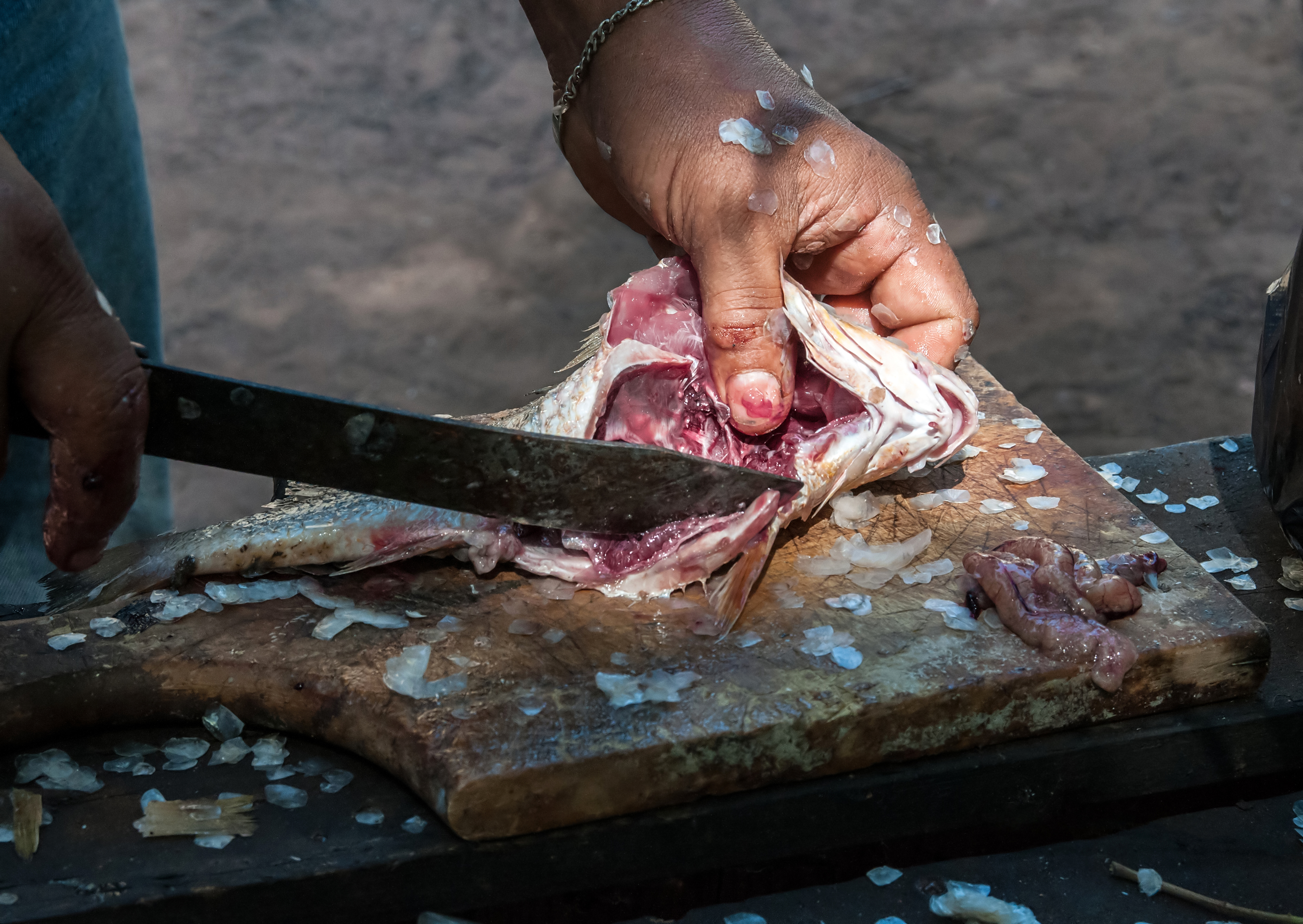 Gutting fish in Isla Margarita